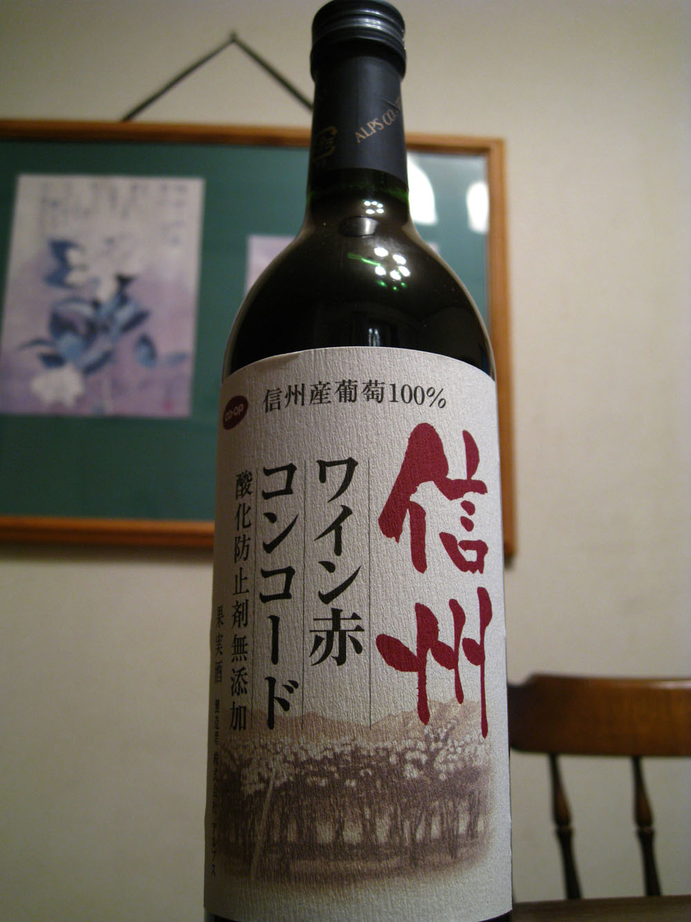 Japanese wine from Nagano Prefecture, photographed in Tokyo